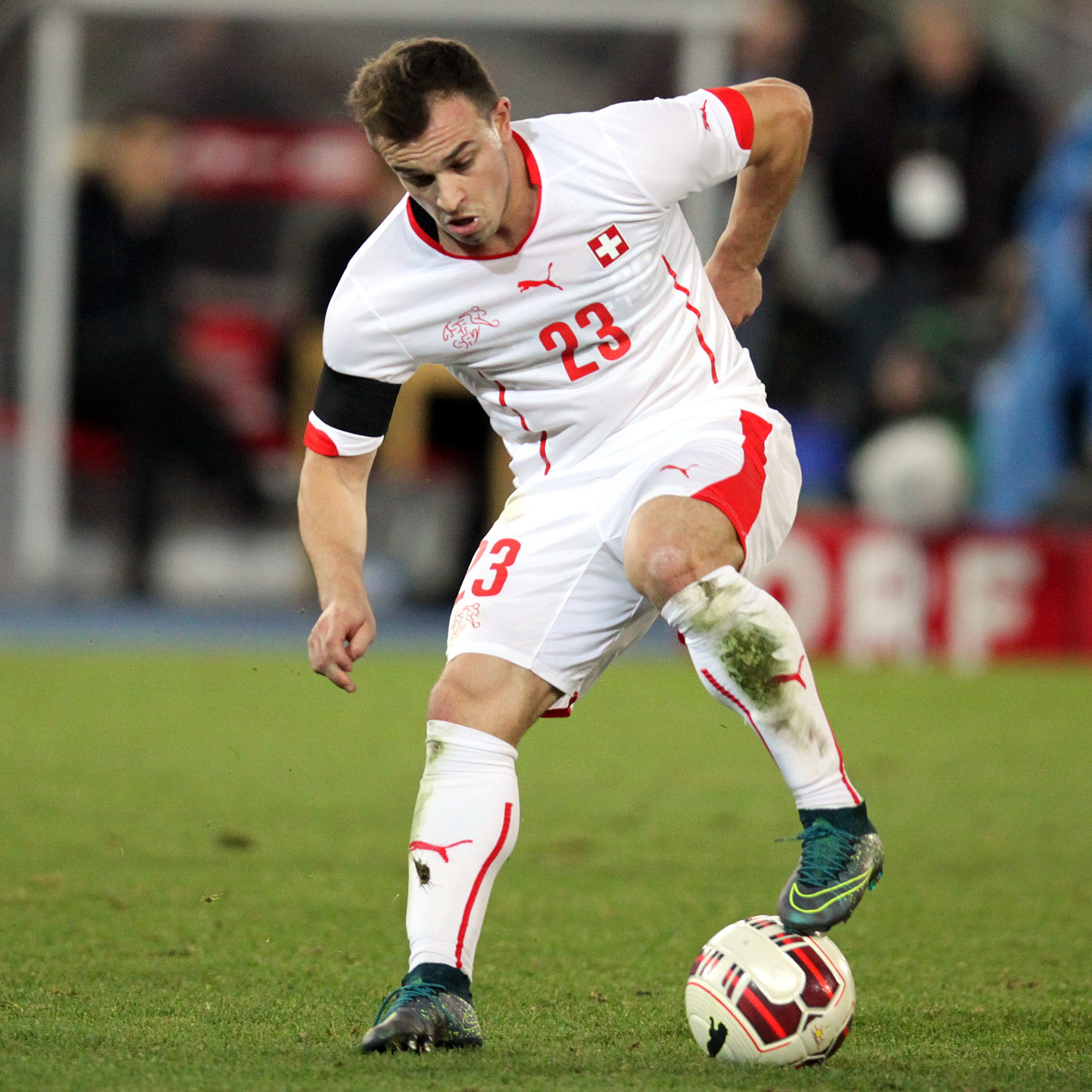 Friendly match – Austria (red shirts) vs. Switzerland (white shirts) 1-2 (1-2) – 2015-11-17 in Vienna, Ernst-Happel-Stadion – The photo shows Xherdan Shaqiri.